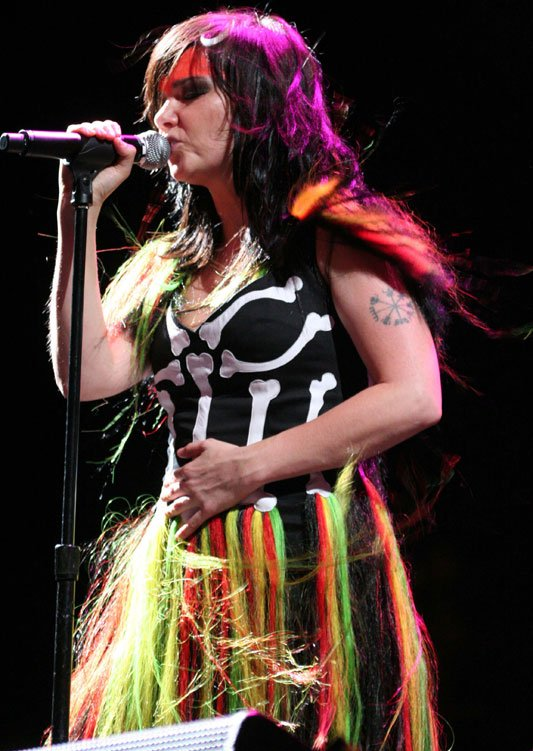 Björk Guðmundsdóttir performing at the Coachella Valley Music and Arts Festival in Indio, California, United StatesBjork-1